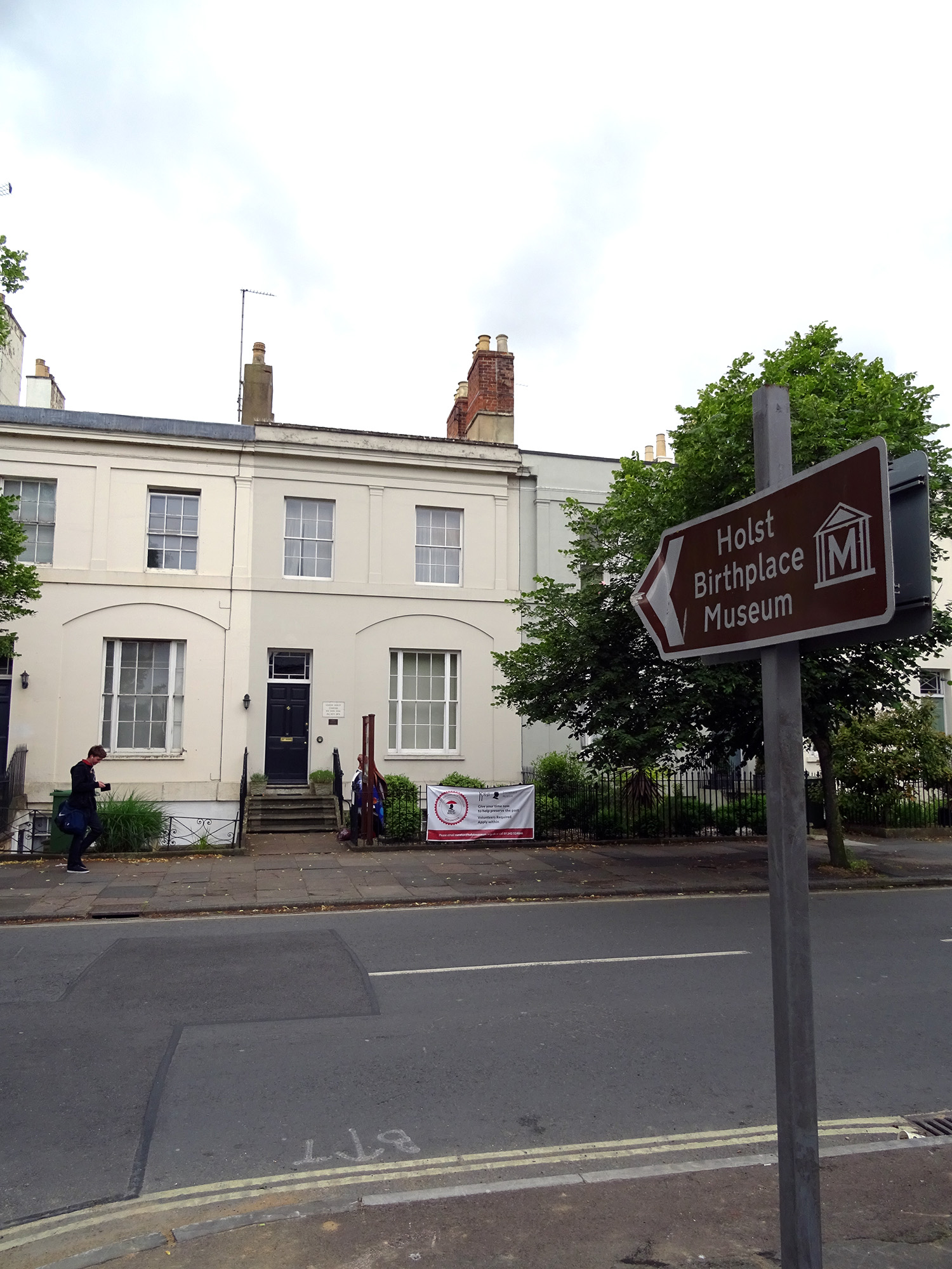 Gustav Holst composer was born here 21st. Sept. 1874 - 4 Clarence Road, Cheltenham GL52 2AY